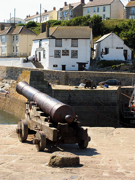 Cannons at Porthleven Harbour Entrance. Two cannons poised to protect the harbour from unwanted visitors.